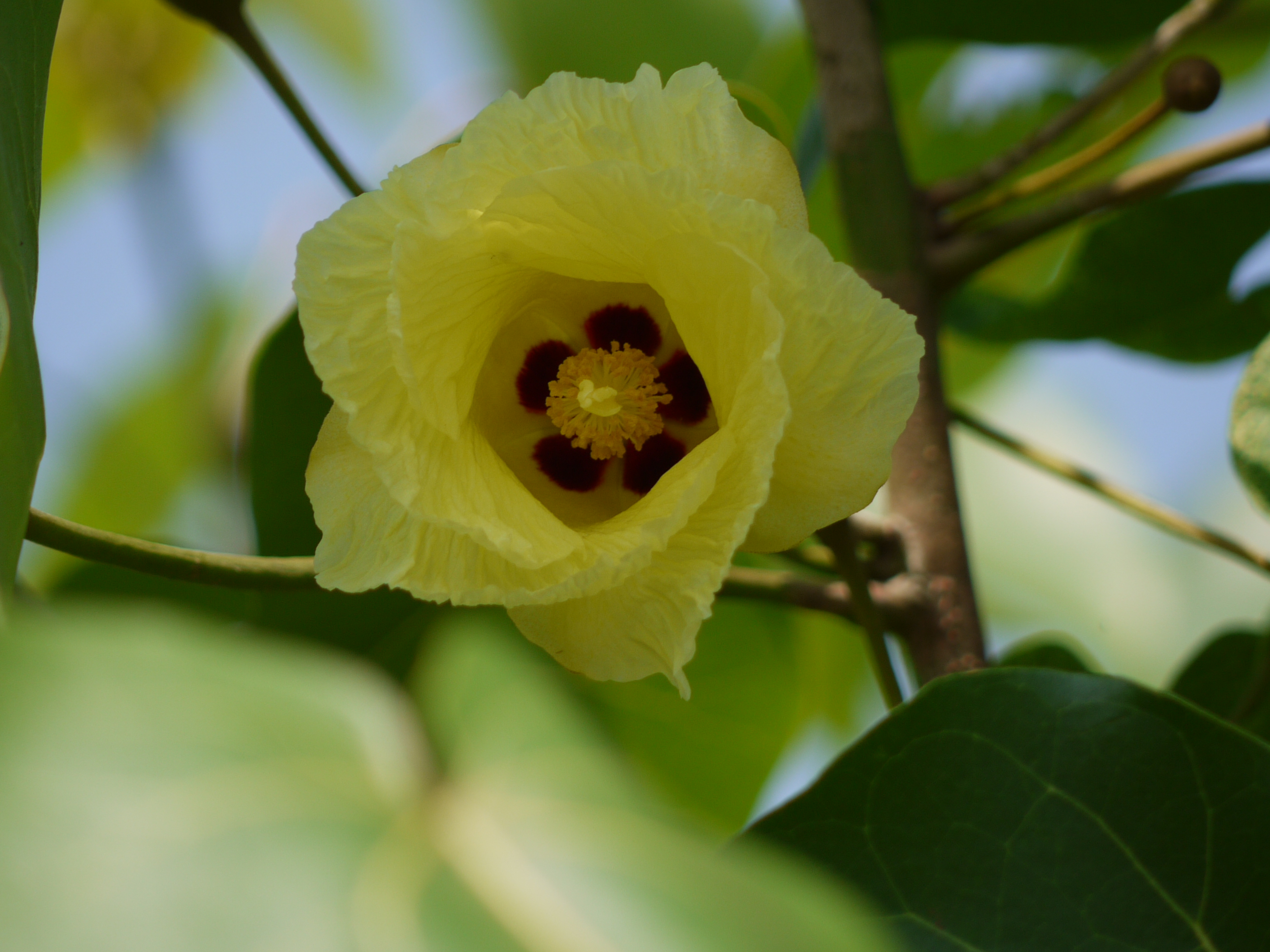 Malvaceae (mallow family) » Thespesia populnea thess-PEE-zee-uh -- from the Greek thespios (marvelous, divine) pop-ULL-nee-uh -- pertaining to or similar to Populus (poplar) commonly known as: aden apple, bhendi tree, cork tree, Indian tulip tree, John-Bull tree, king of flowers, large-leaved tulip tree, mangrove, milo (in Hawaii), Pacific rosewood, portia tree, seaside mahoe (in Florida), umbrella tree • Bengali: gajashundi, palaspipal, poresh • Gujarati: પારસ પિપળૉ paras piplo • Hindi: bhendi, gajadanda, पारस पीपल paras-pipal • Kannada: arasi, bangali • Malayalam: ചിലാന്തി cilaanthi, പൃപ്പരുത്തി prapparuththi, പൃവരശ് pravaras • Marathi: आष्ट aashta, आस aas, पारस भेंडी paras-bhendi, पारोसा पिंपळ parosa pimpal, पार्श्वपिंपळ parshvapimpal, पिंपरणी pimparani, पिंपरी pimpari • Sanskrit: पार्श्वपिप्पल parshwapippal • Tamil: பூவரசு puvarasu • Telugu: గంగరావి gangaravi Native to: India References: Flowers of India • Dave's Garden • Zipcode Zoo • EcoPort